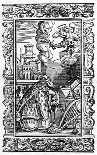 Sketch of Pjetër Budi during prayer. From his book "The Speculum Confessionis or Pasëqyra e t'rrëfyemit (The Mirror of Confession)" Vatican library